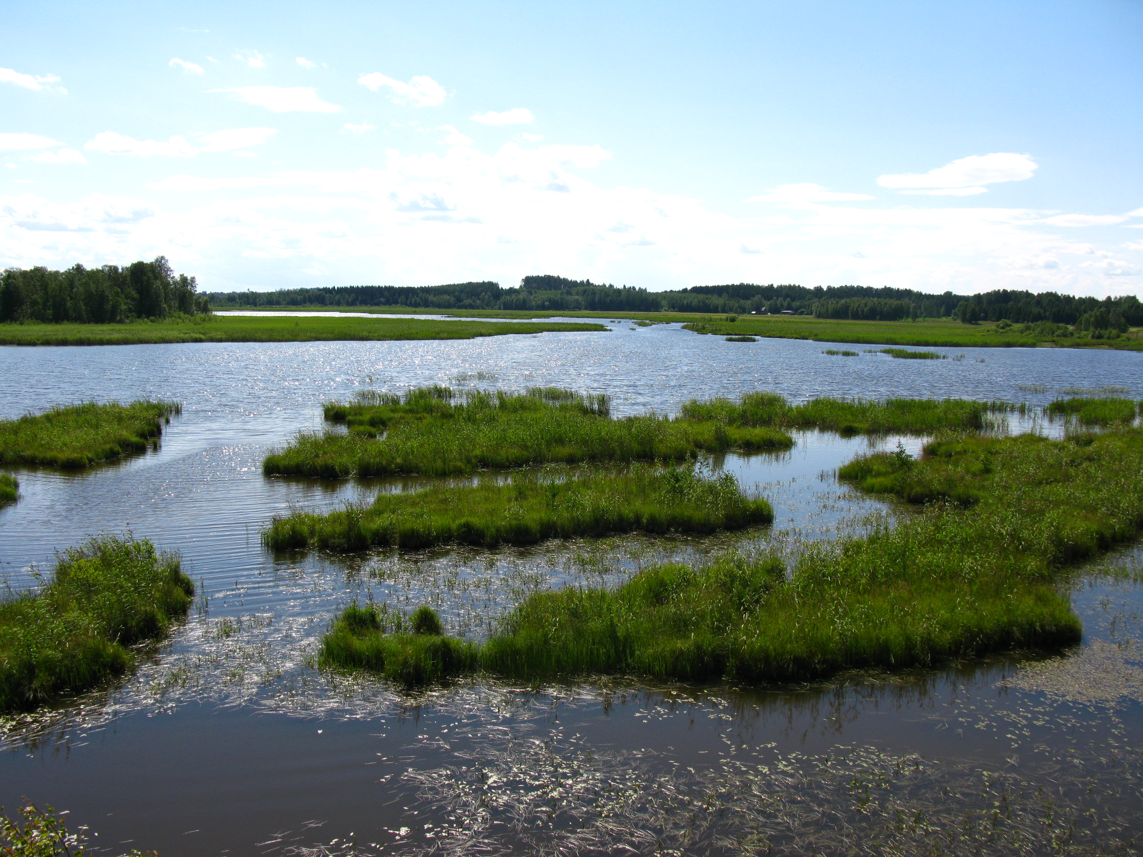 A sight to the bird lake Siikalahti (a gulf of the lake Simpelejärvi) in Parikkala, Finland.